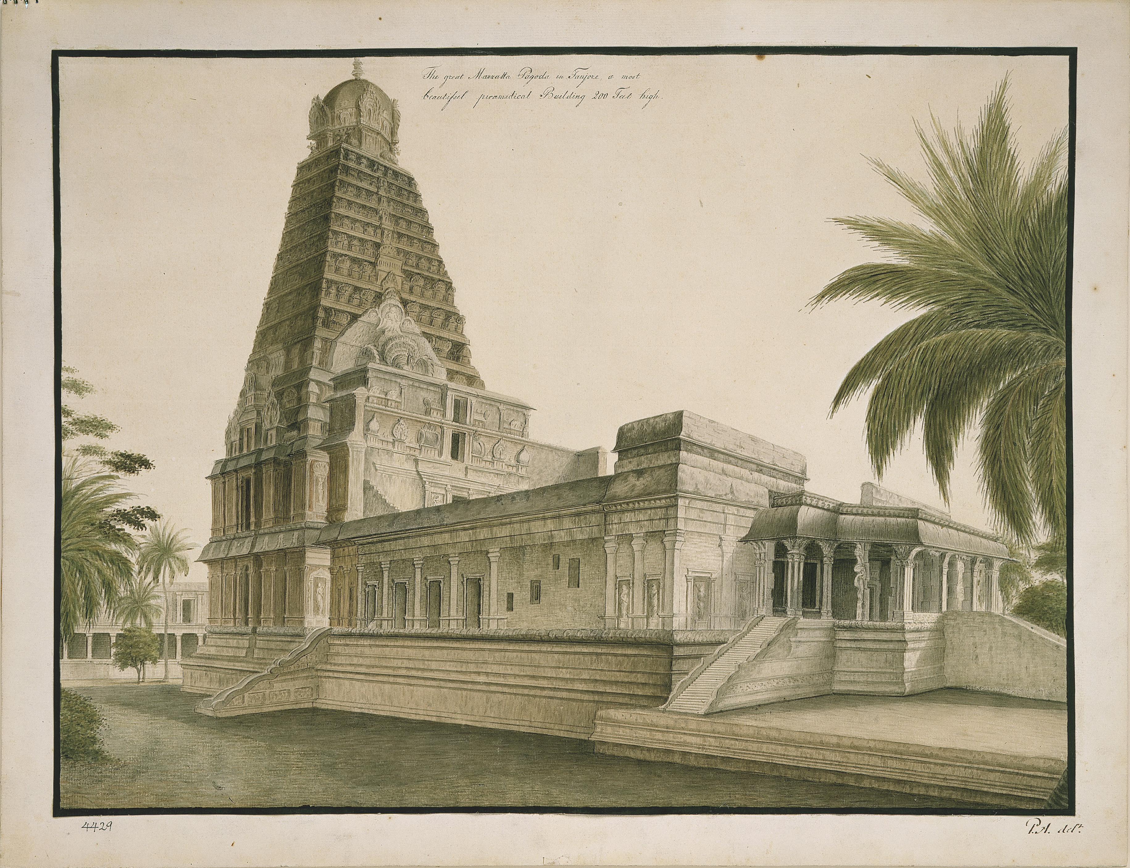 The Rajarajesvara-temple (Brihadisvara Temple) in India